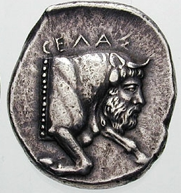 This is a cropped image of File:Gela SNGANS 065.jpg